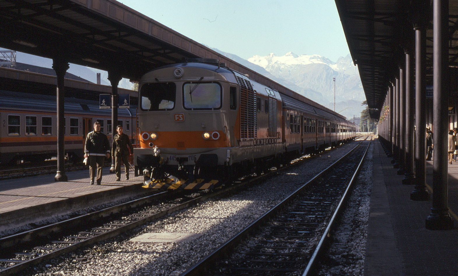 D445.1105 at the end of its journey on 2 November 1997 on train D1805, 09:25 Torino Porta Nuova to Aosta.